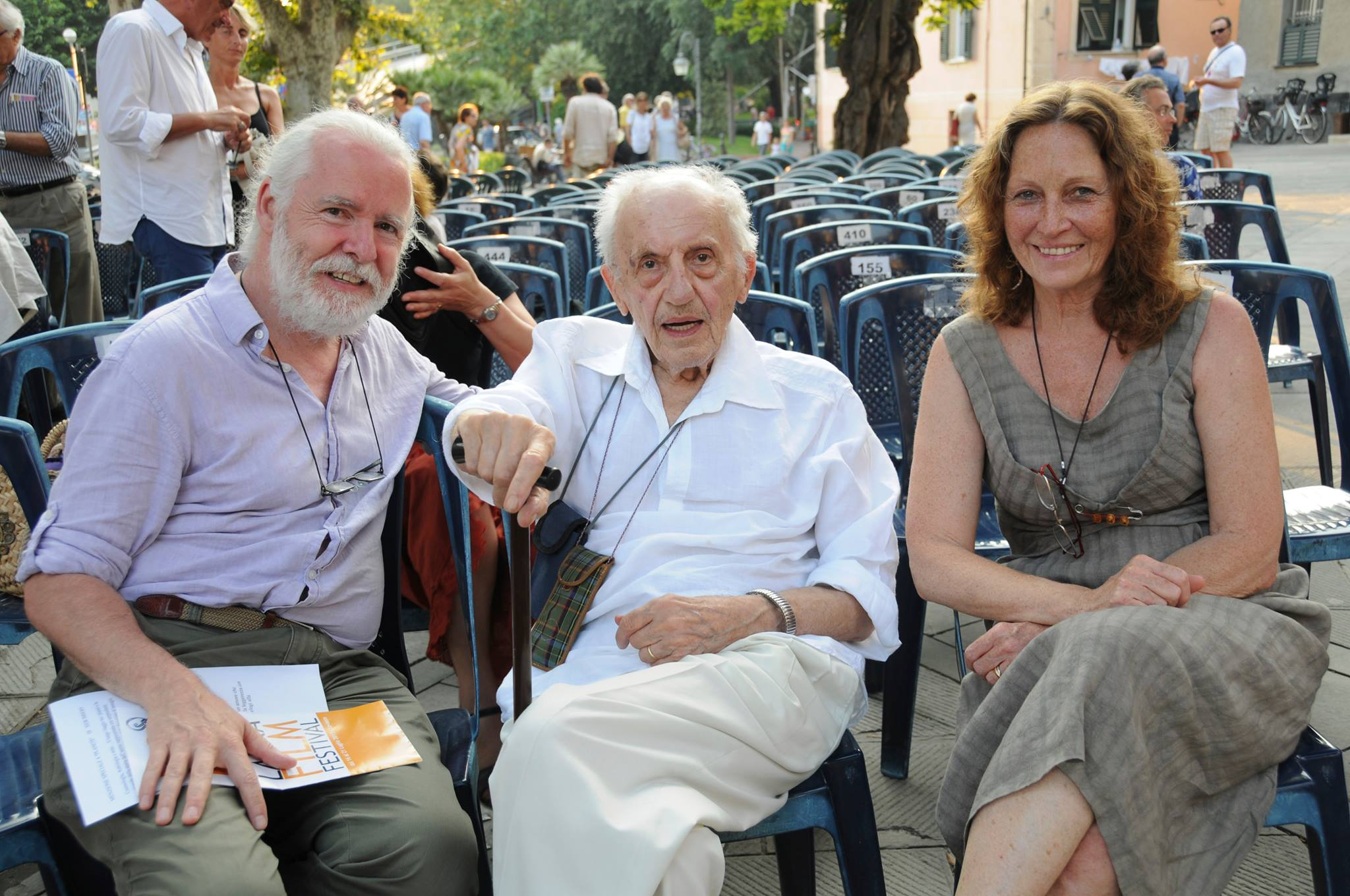 Fulvio Wetzl and Laura Bagnoli, with Morando Morandini at 10° Laura film Festival 2013 in Levanto.jpg)